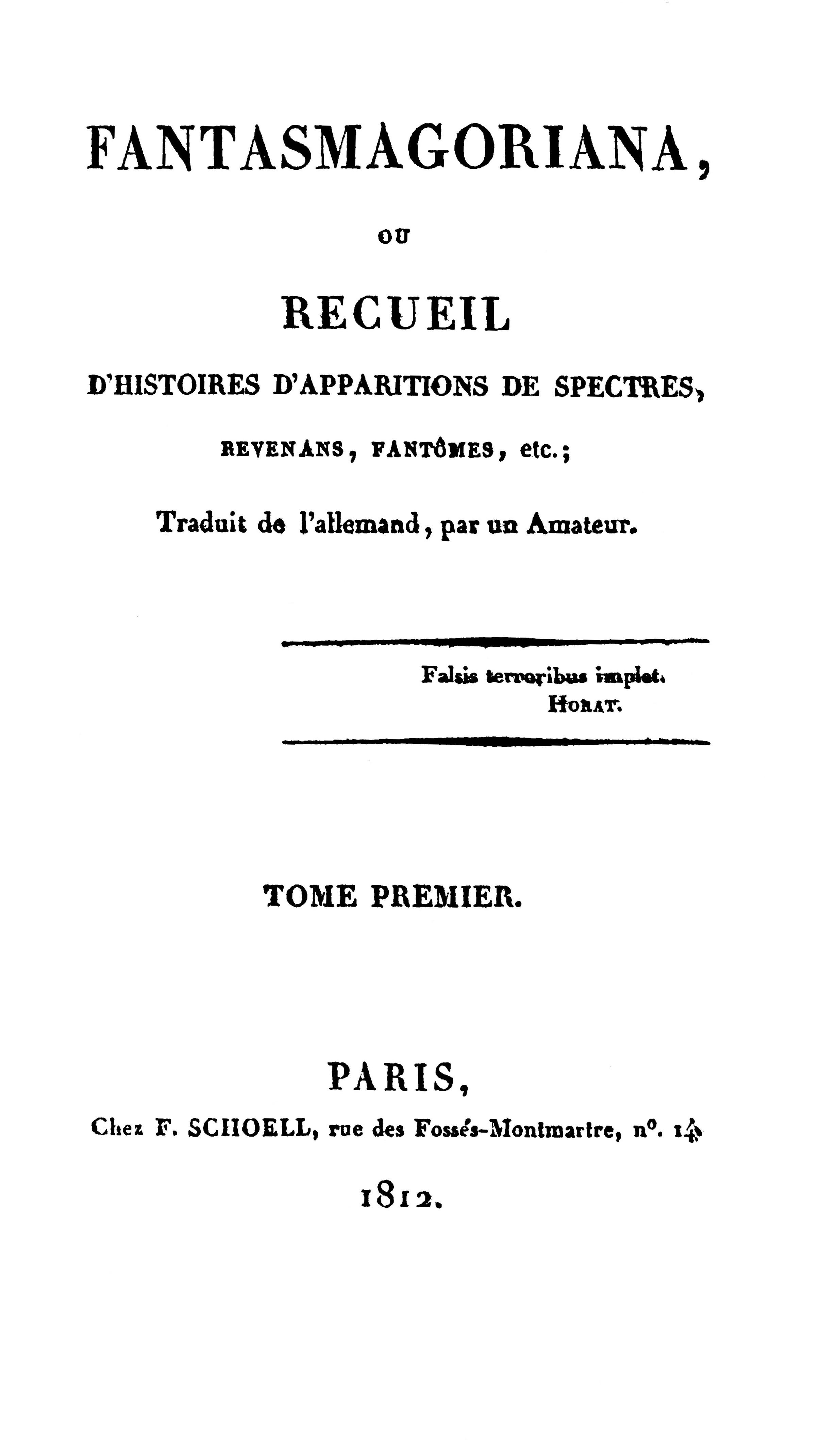 Title page of Fantasmagoriana (1812). Cleaned from original Google Book scan by Yodin.